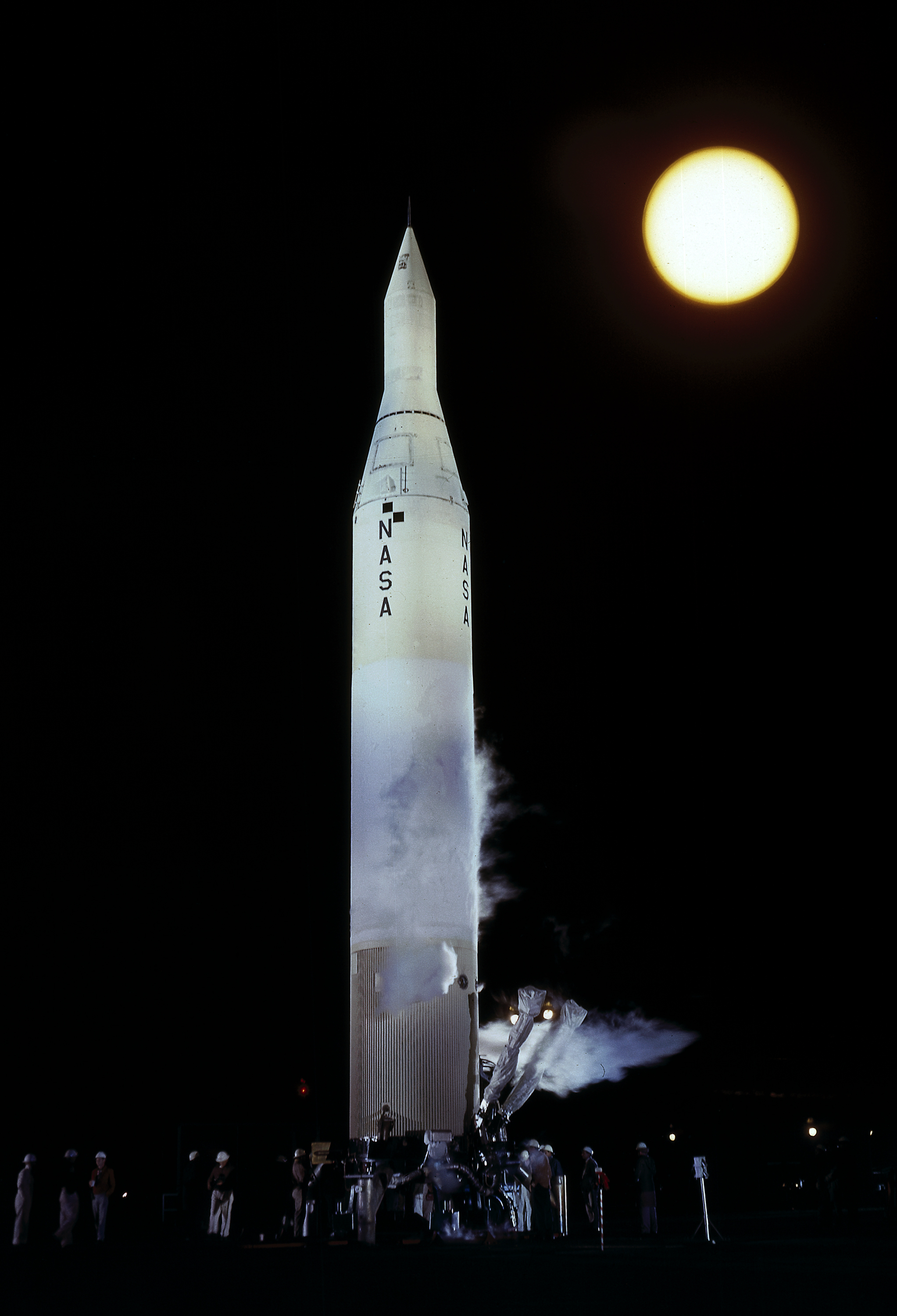 Juno II rocket on launch pad (Pioneer 4 onboard)